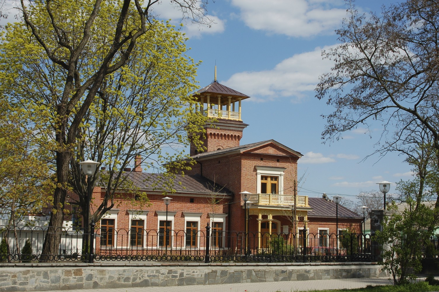 The Tchaikovsky House in Taganrog after renovation works in 2010.